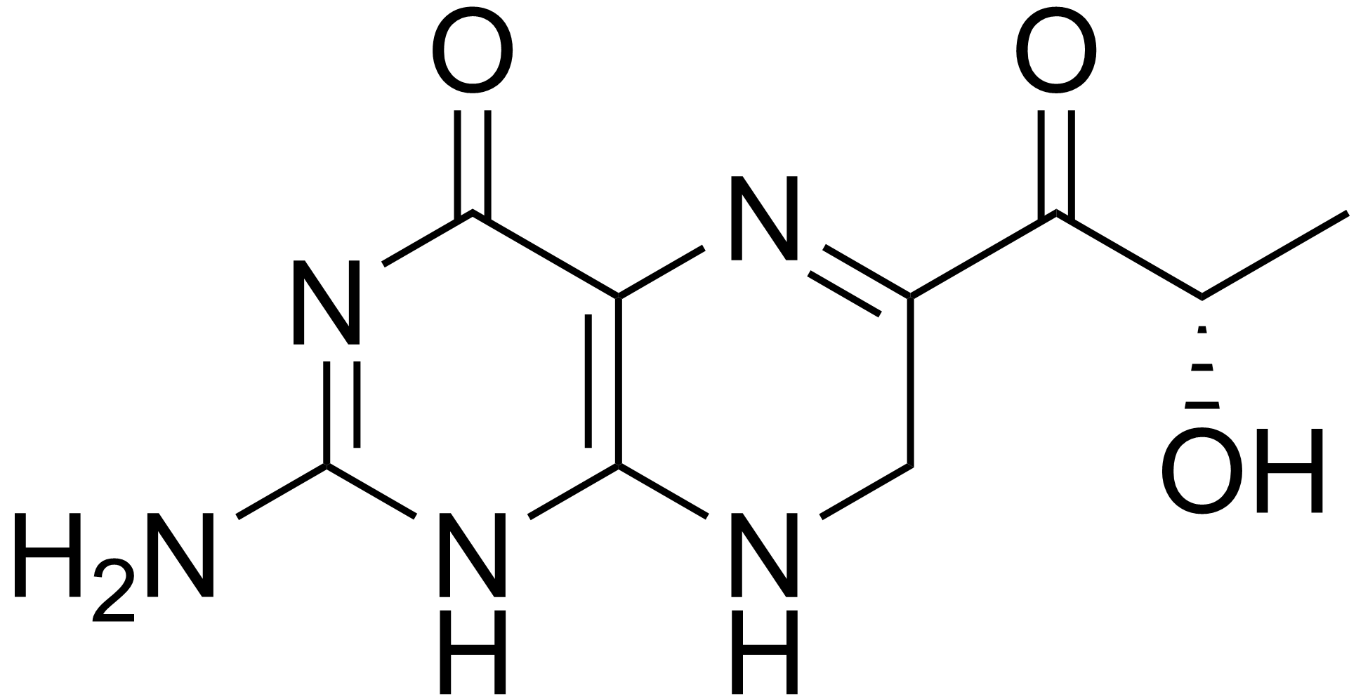 chemical structure of L-sepiapterin